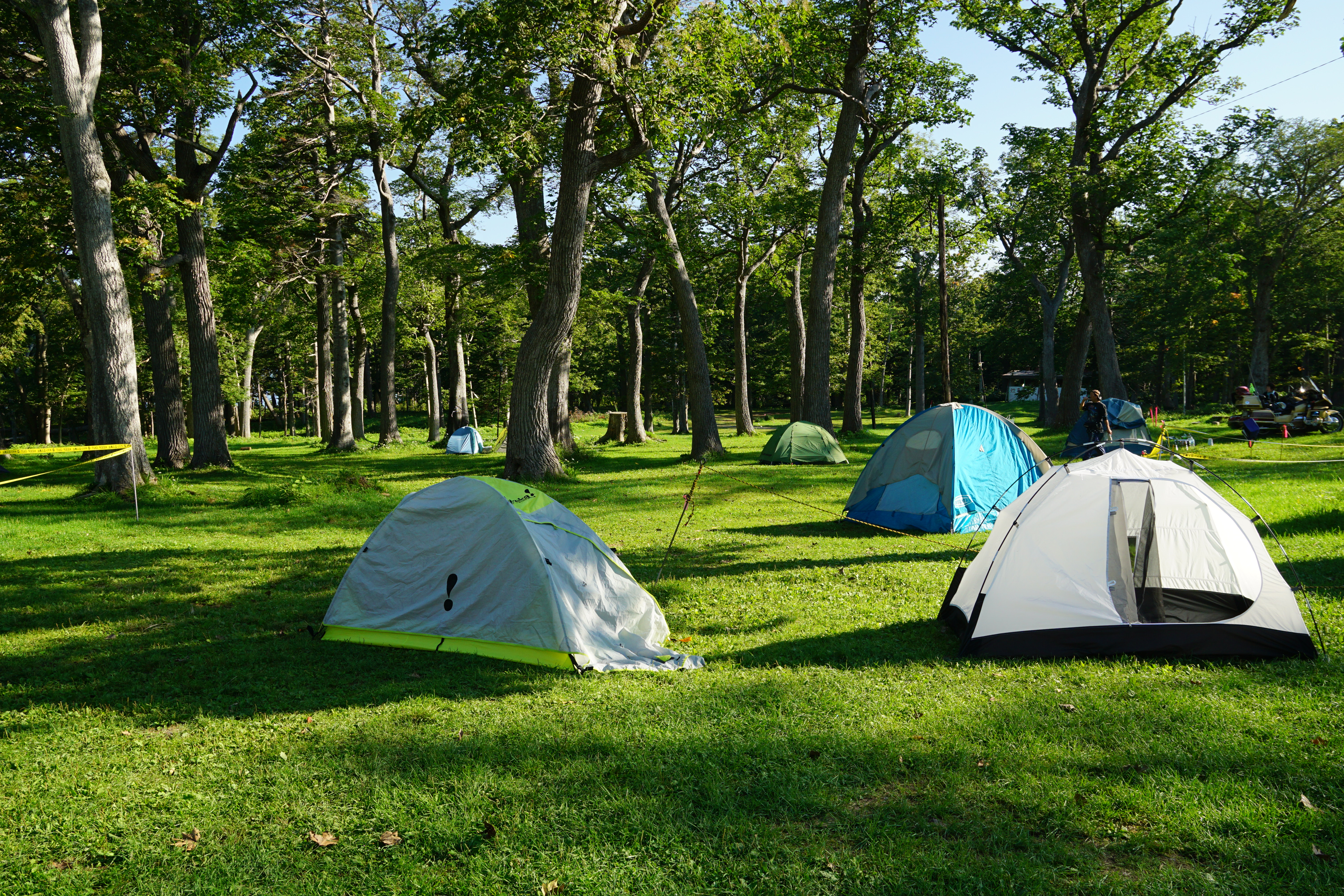 National Shiretoko Campsite in Shiretoko, Hokkaido prefecture, Japan.